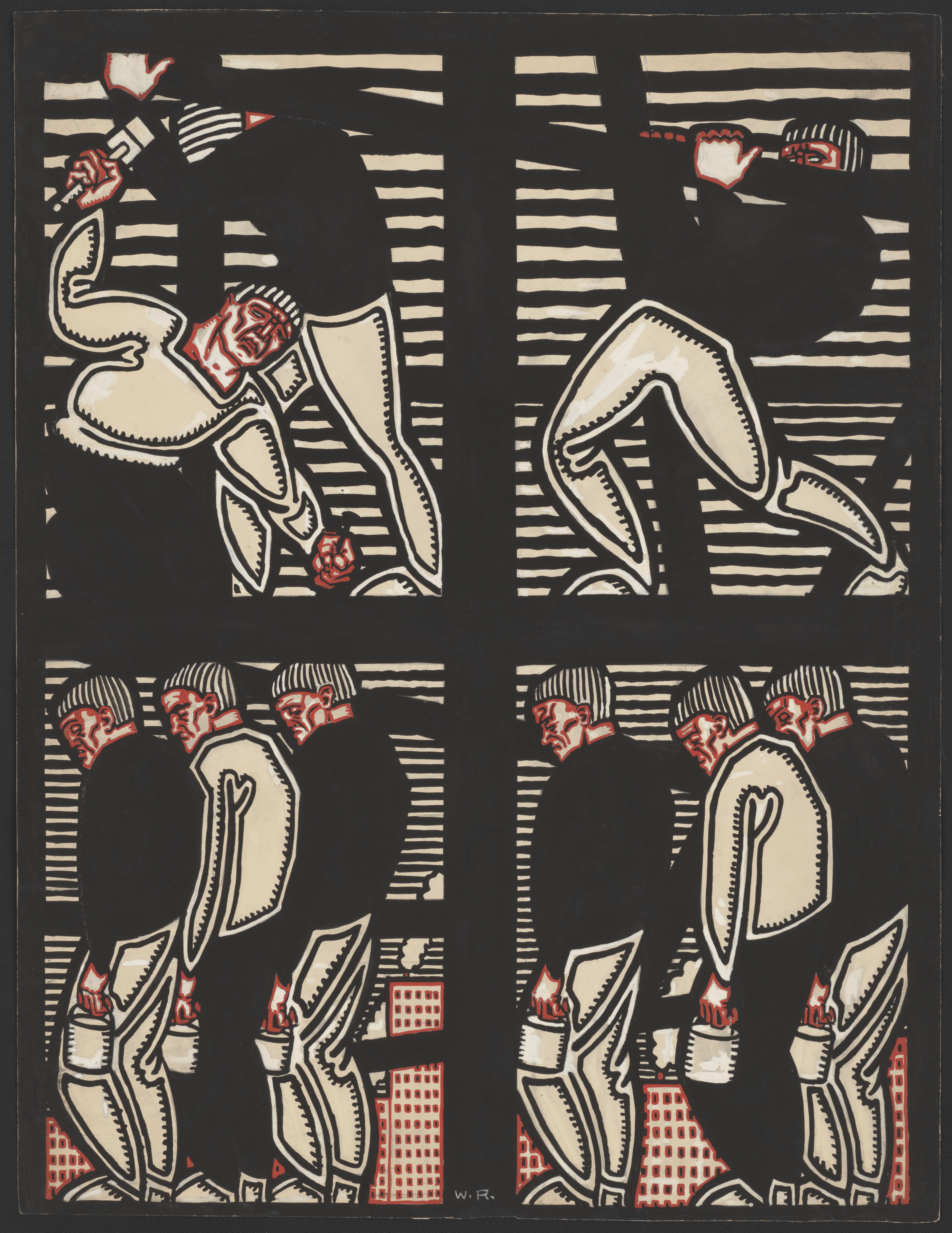 Steel workers by German painter Winold Reiss (1886-1953). Drawing shows steel workers on a beam (above) and walking with lunch buckets (below). 1 drawing: gouache or tempera, color.